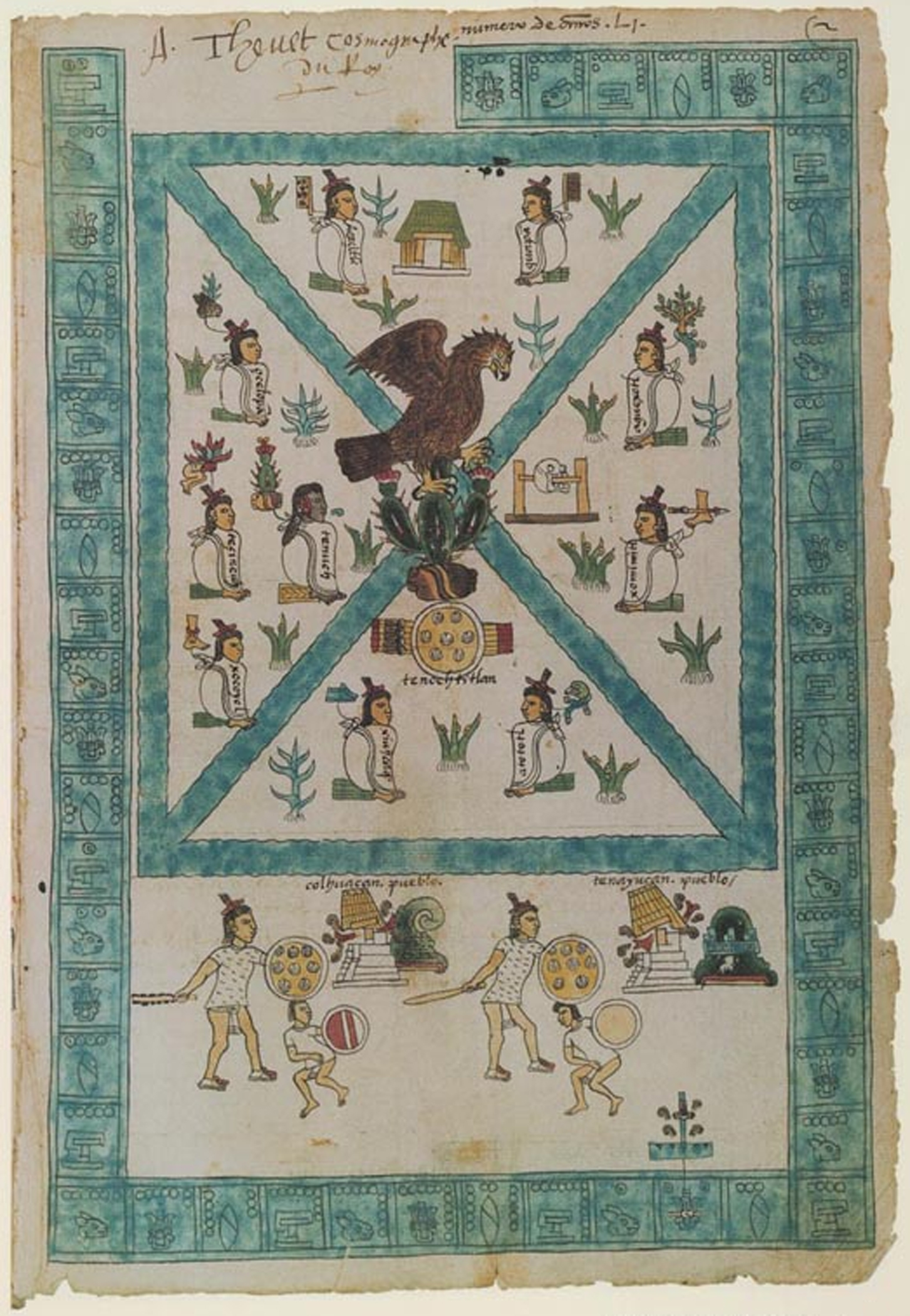 atl tlachinolli